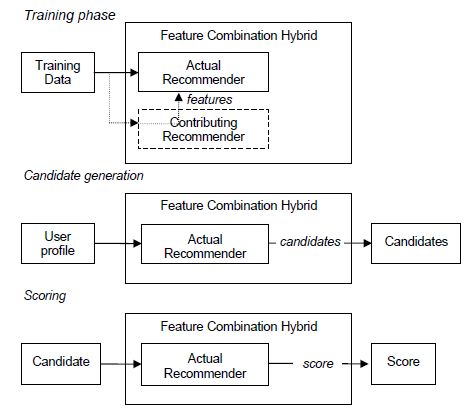 Sistema de Recomanació Híbrid, Combinació de propietats